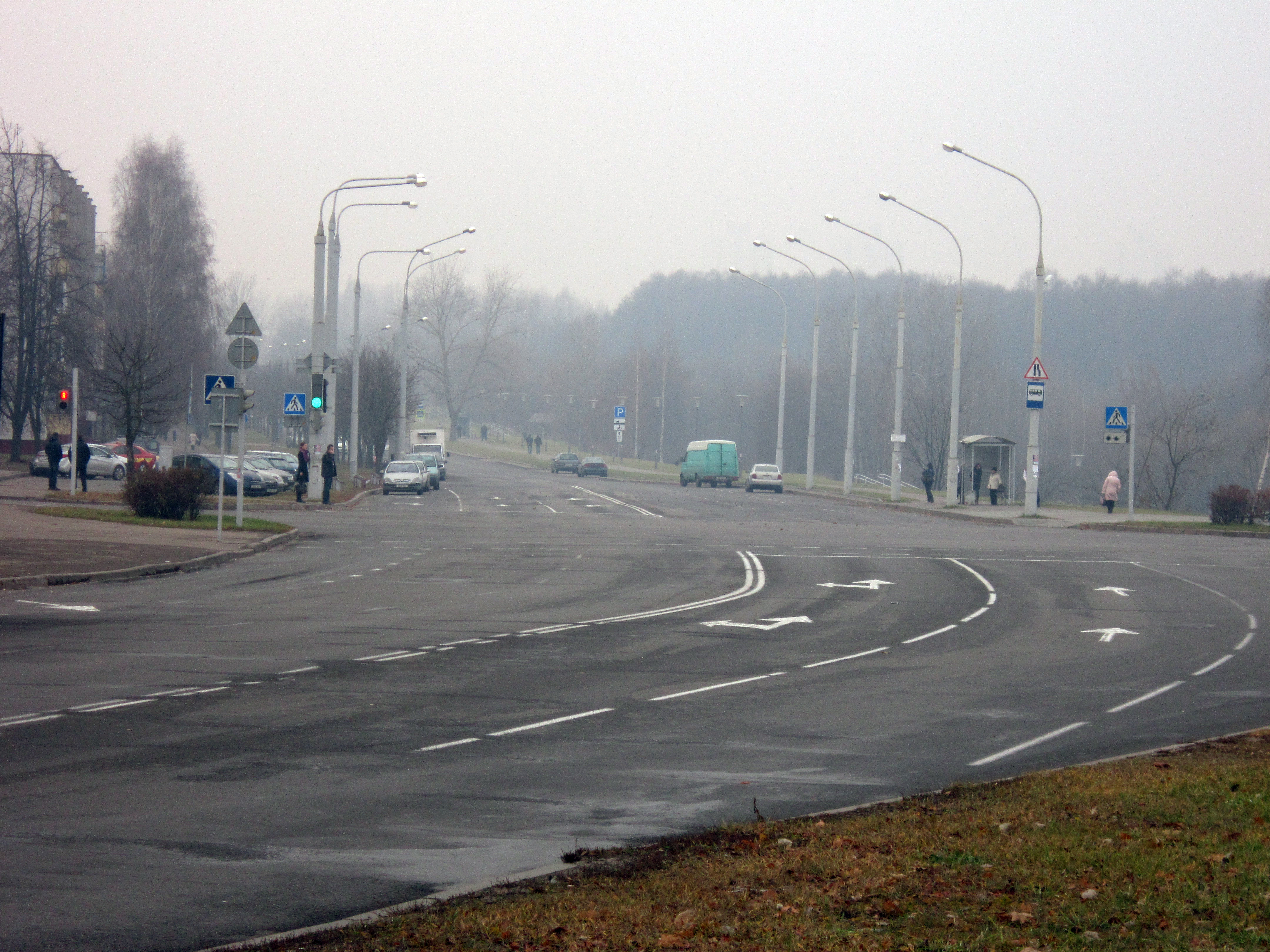 Ubarevich steet in Minsk